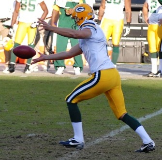 Green Bay Packers punter Derrick Frost in action in the game against the Tennessee Titans on November 2, 2008 at LP Field.